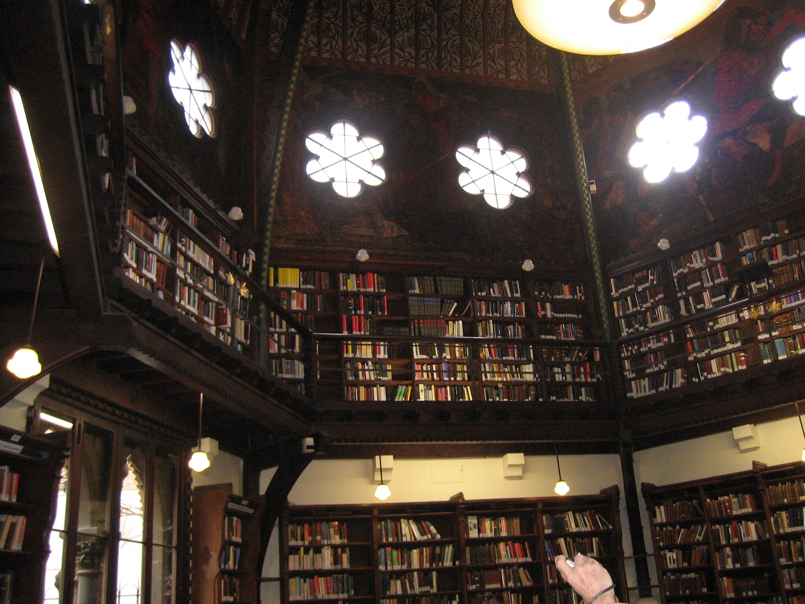 Oxford Union Library. The Pre-Raphaelite murals in the library were painted between 1857 and 1859 by a group of young artists including Dante Gabriel Rossetti, William Morris and Edward Burne-Jones. The paintings depict scenes from the Arthurian legends. The ceiling design is by William Morris.